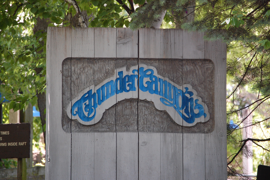 Thunder Canyon entrance sign at Cedar Point